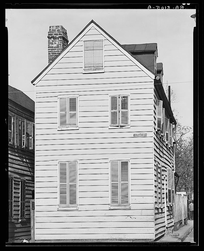 Photograph of frame house, Charleston, Charleston County, South Carolina, by famed photographer Walker Evans. Photograph by the Farm Security Administration, Office of War Information Photograph Collection. Courtesy of the Library of Congress, Washington, D. C.